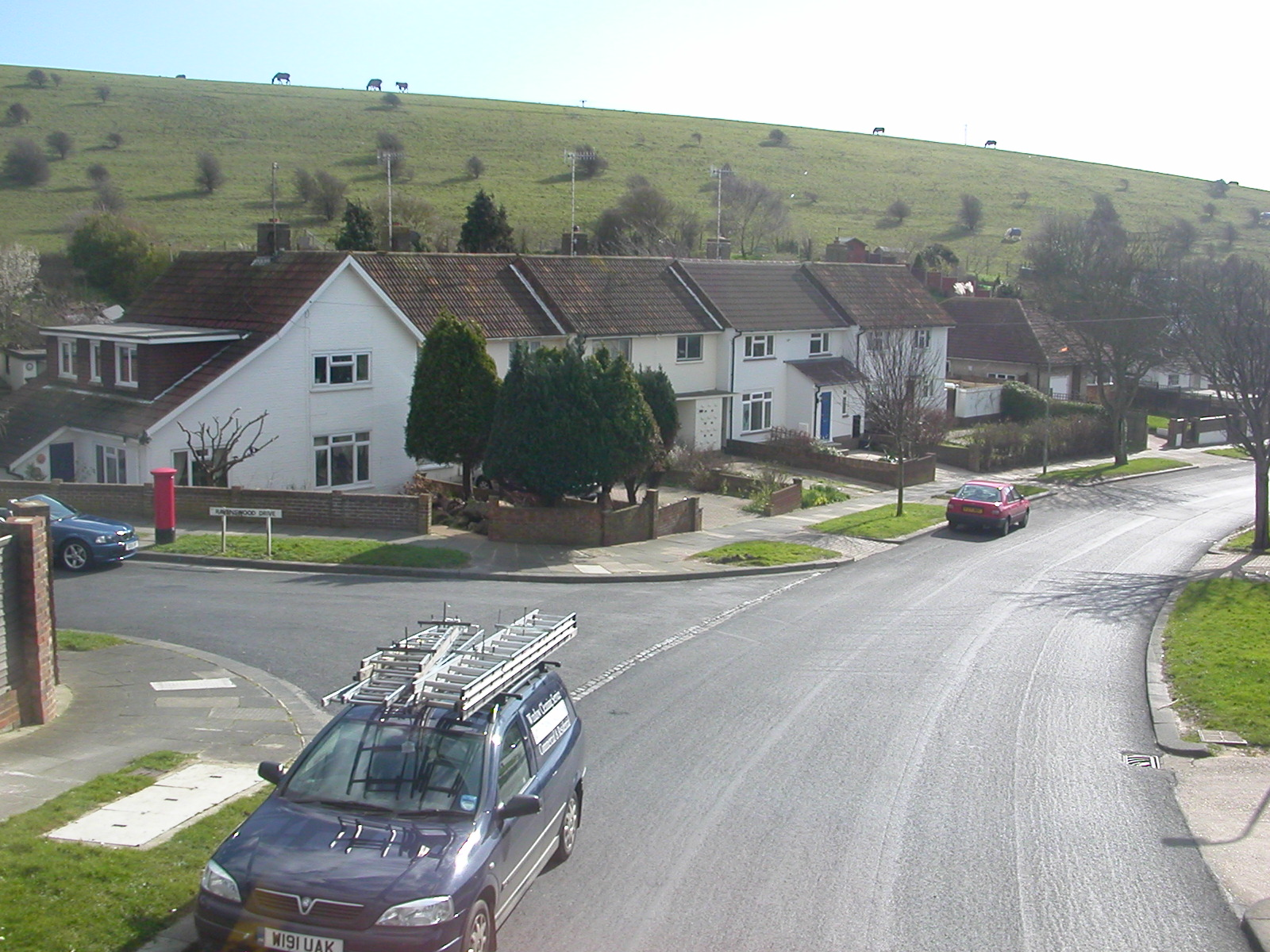 Junction of Ravenswood Drive and Cowley Drive, Woodingdean, Brighton. Photographed on 3rd March 2007.